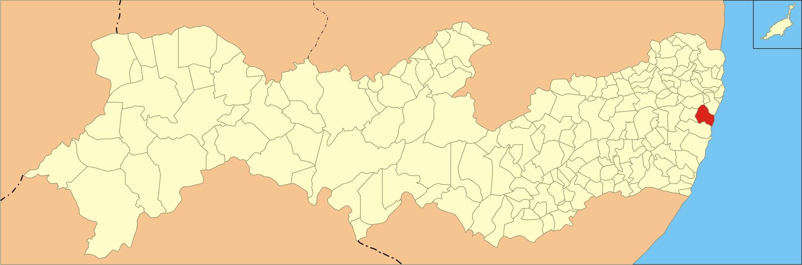 Localization of Jaboatão dos Guararapes in Pernambuco.